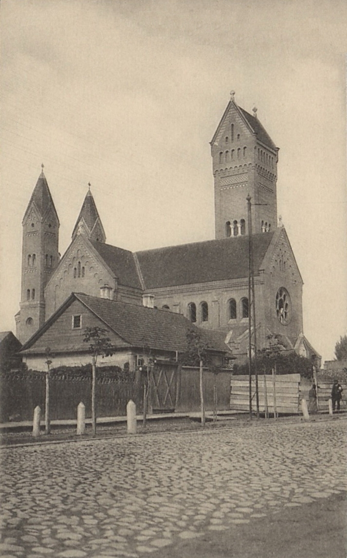 Church of Saints Simon and Helena (Minsk, Belarus) - postcard